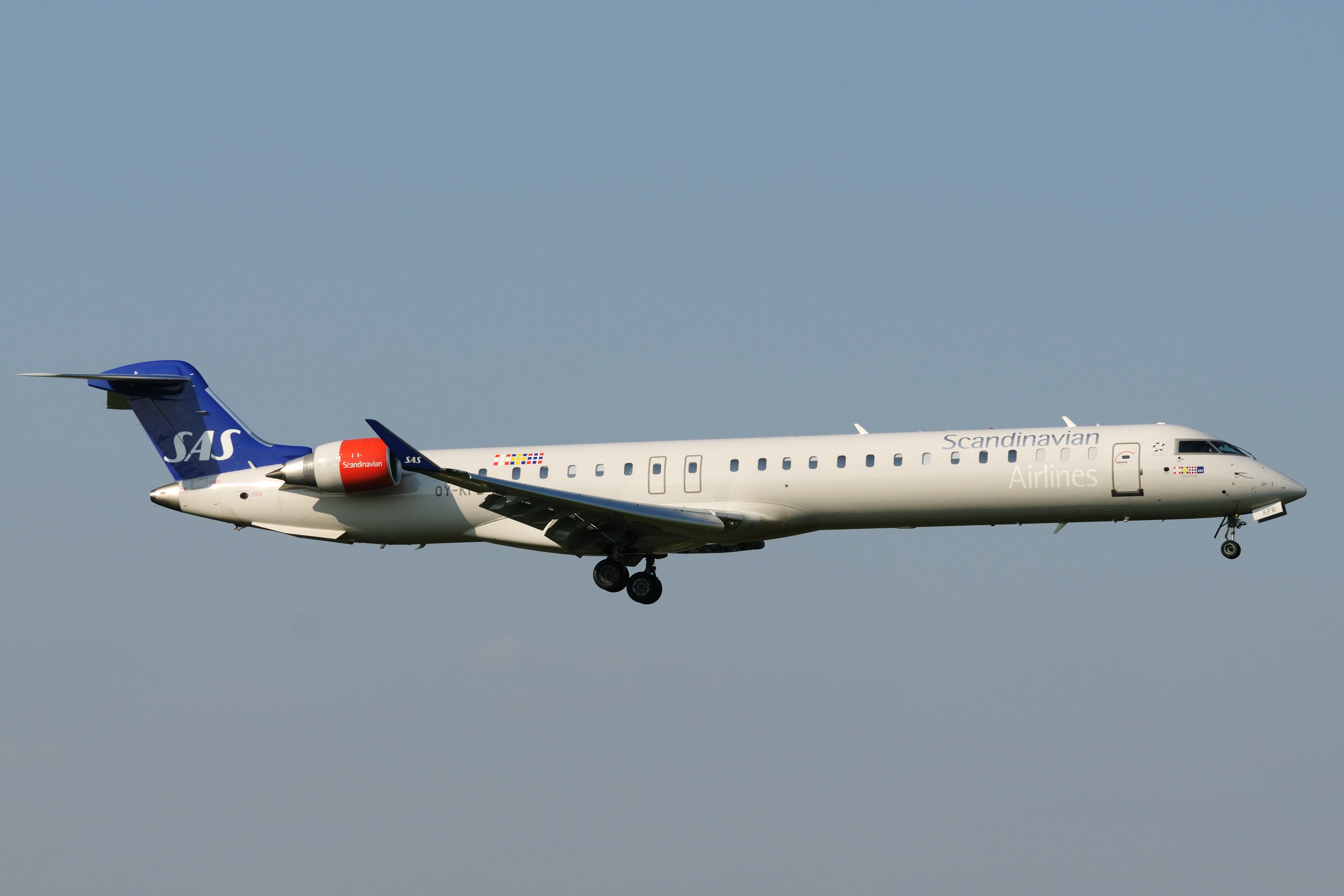 Bombardier CRJ-900 OY-KFB SAS - Scandinavian Airlines System